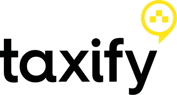 Logo of the company Bolt (formerly Taxify)